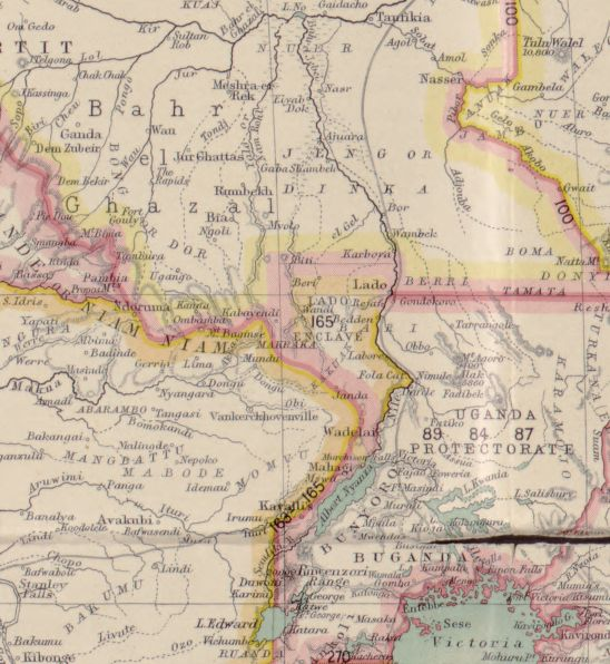 Part of a historic map of Africa, showing especially the Lado enclave in the middle. Made by Sir Edward Hertslet (1824-1902), published in London in 1909.